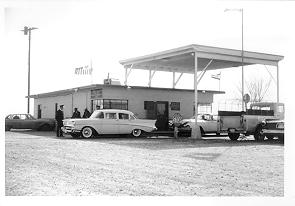 The El Paso Ysleta border inspection station, photographed by the US Customs Service in 1962